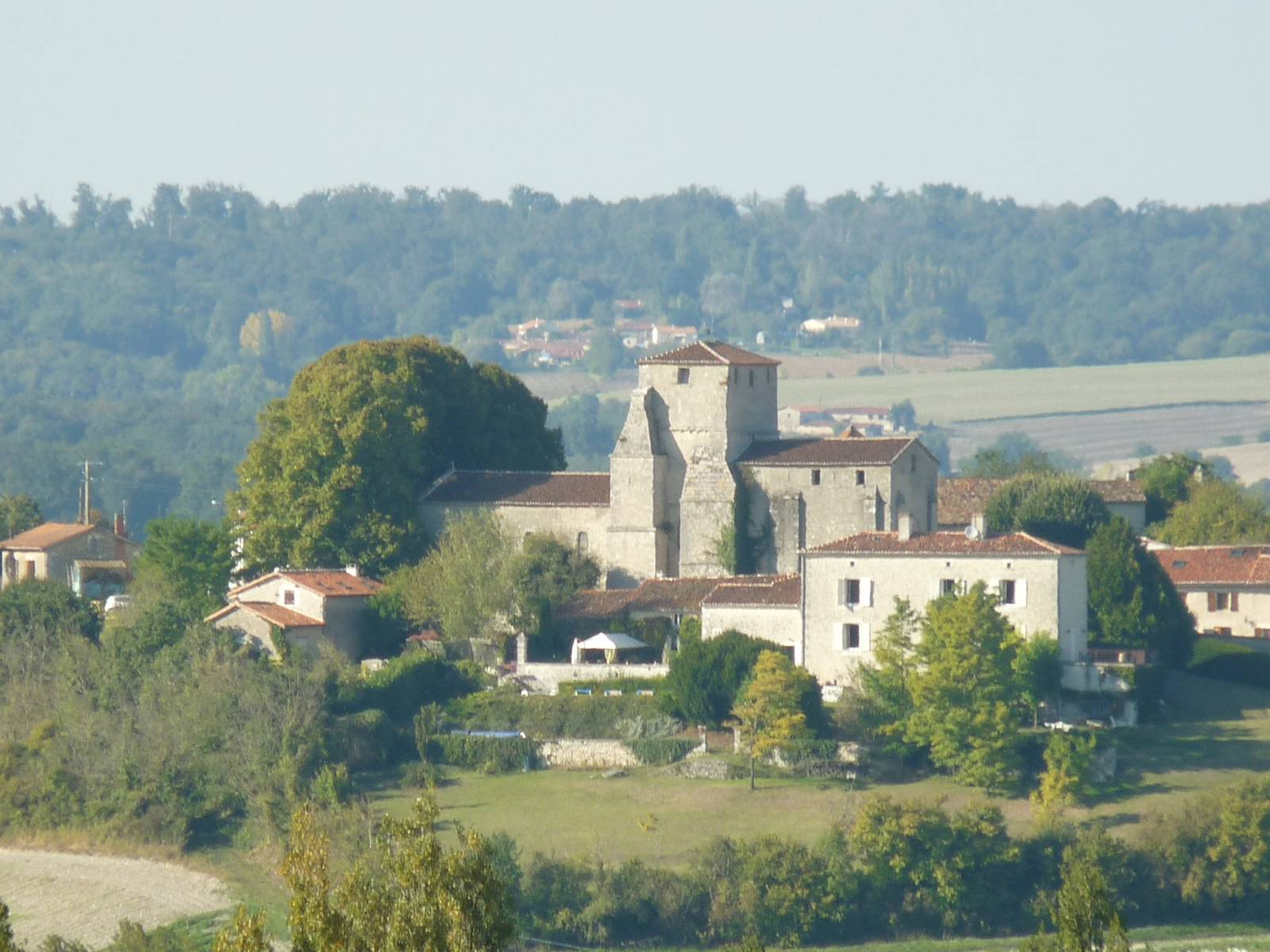 view